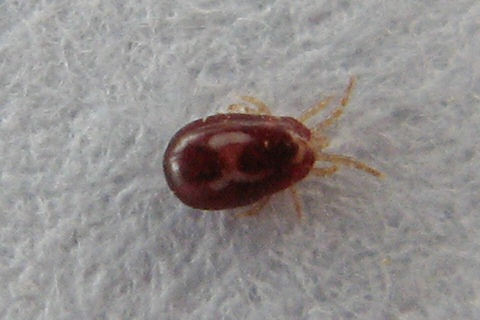 Dermanyssus Gallinae poultry mite on a sheet of paper, taken using a Canon PowerShot A700. Mite is approximately 1mm in length, and was taken from my chicken house.